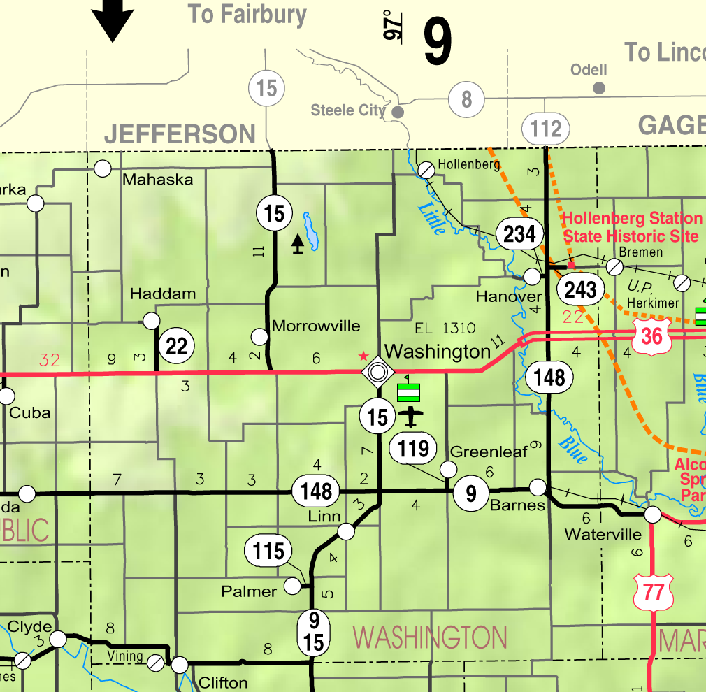 This map of Washington County, Kansas, USA, is copied at a resolution of 300 pixels/inch from the original PDF file.